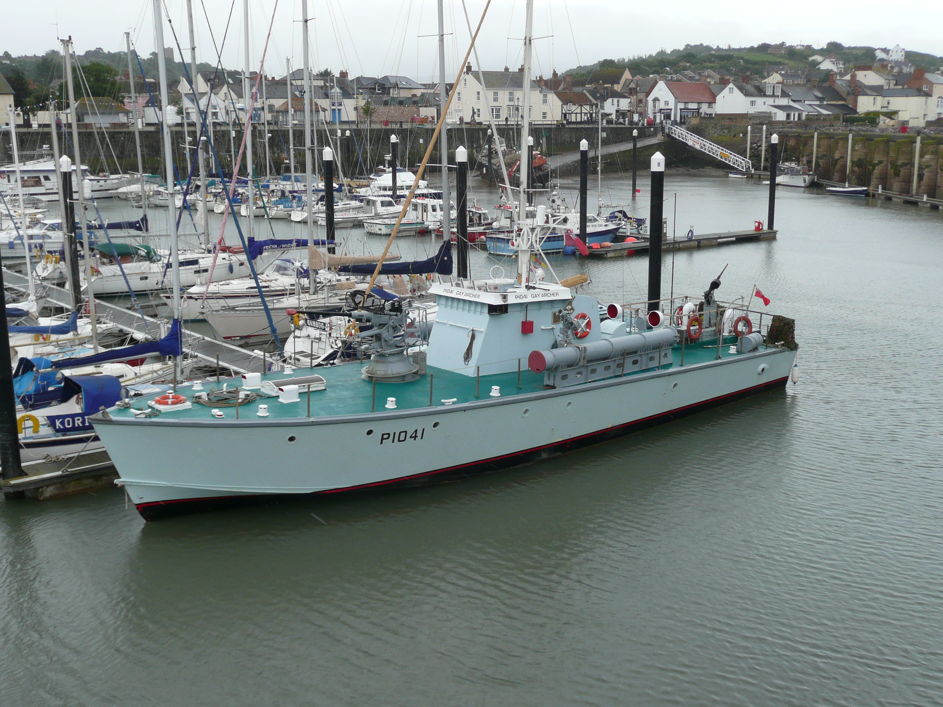 Gay Archer, a Gay class motor torpedo boat, restored in Watchet harbour, England